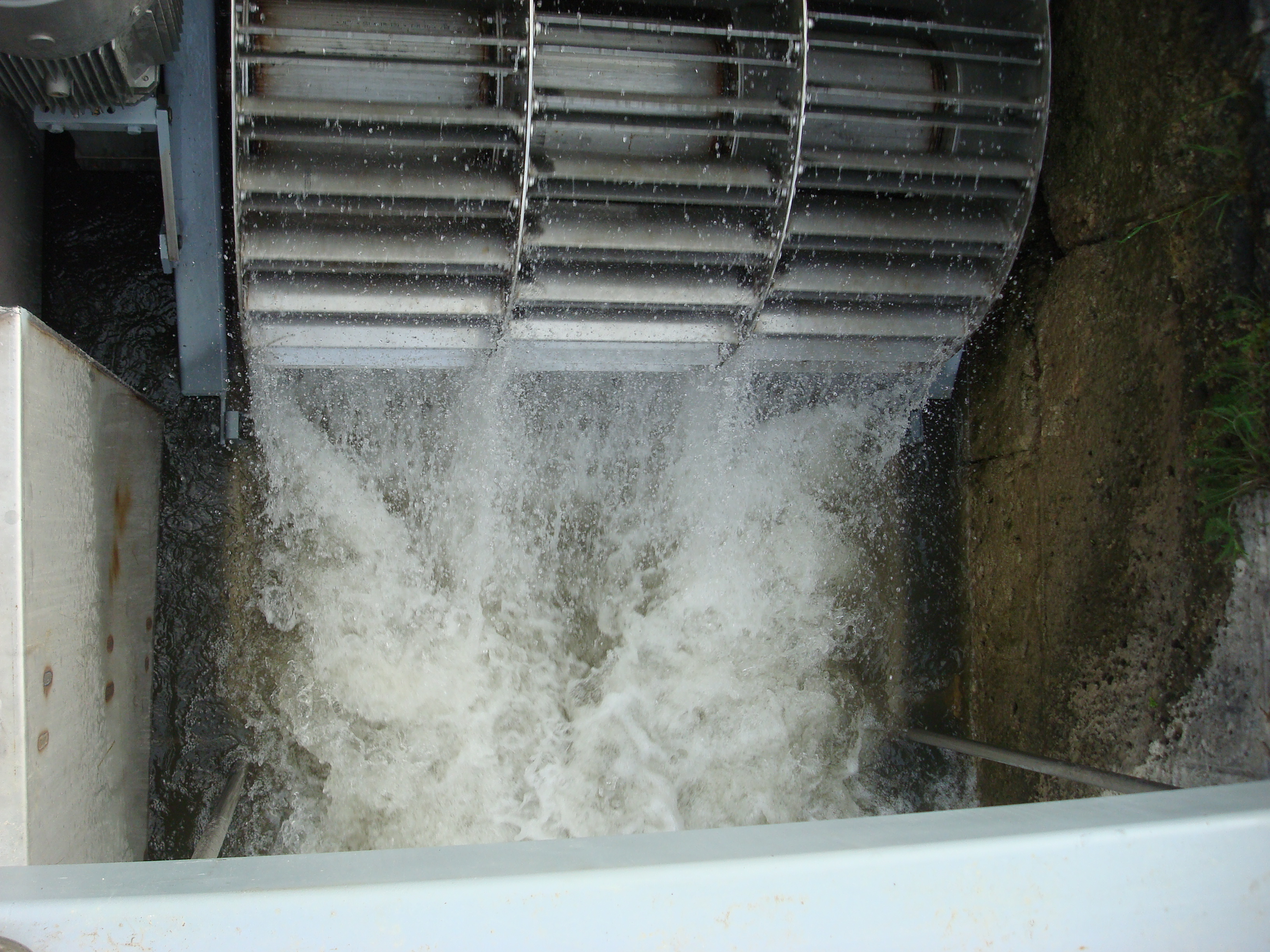 Lamella water wheel in action